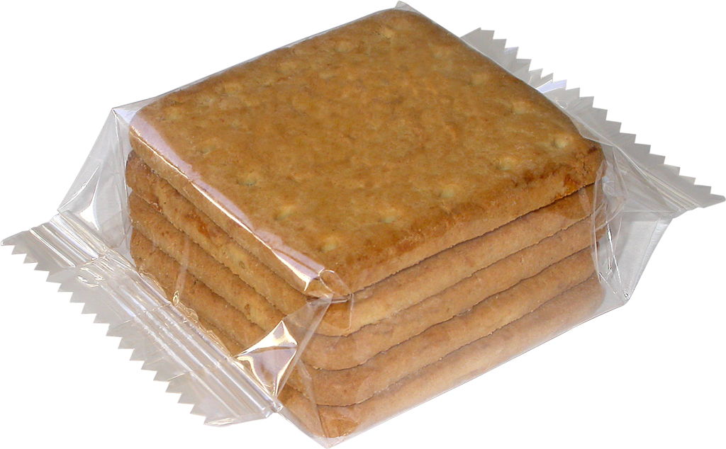 example of FlowPack